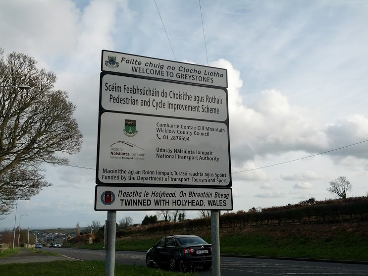 Sign posted at the entrance of Greystones, Co. Wicklow, Ireland, stating that the city is twinned with Holyhead, in Wales.